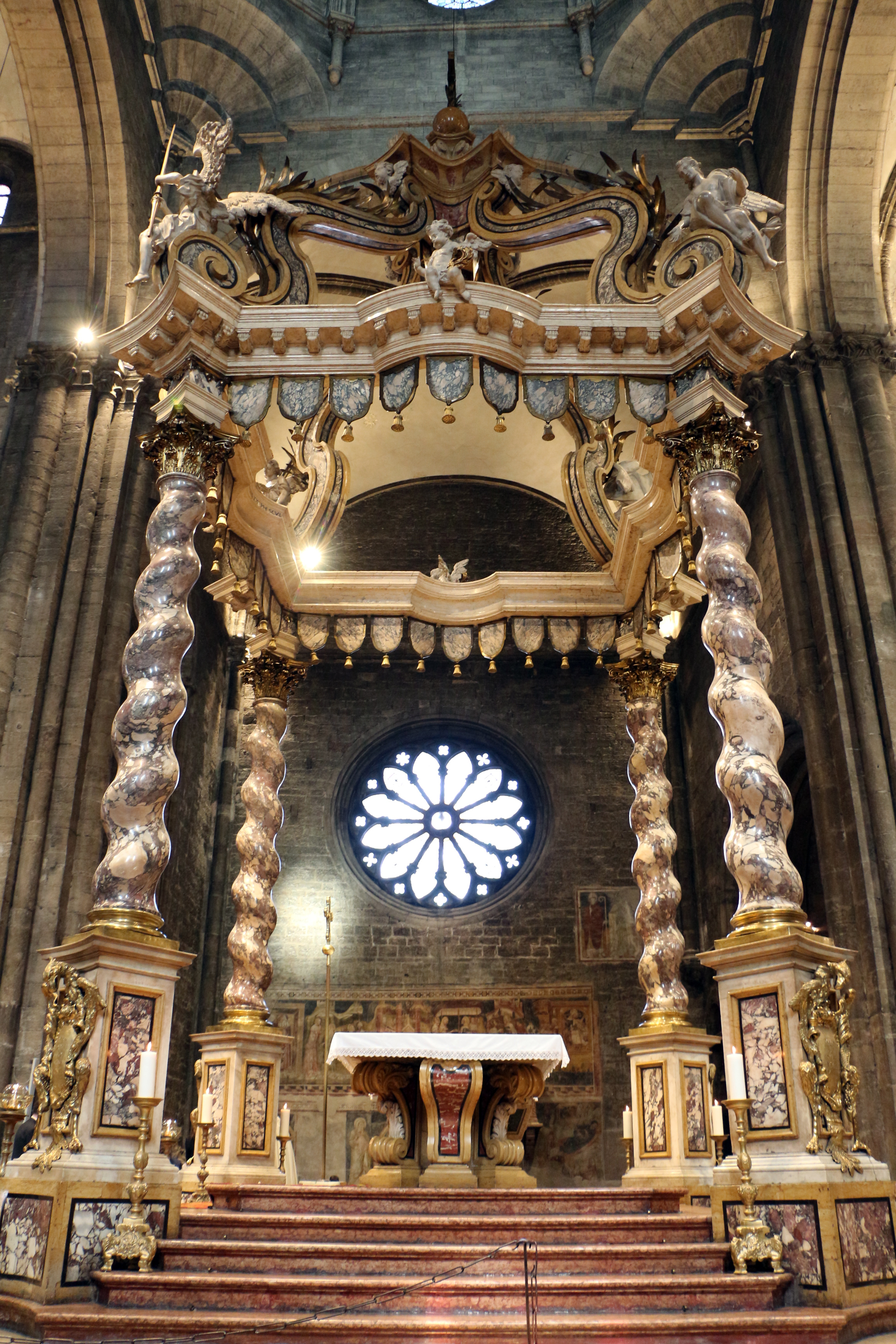 Churches in Trento